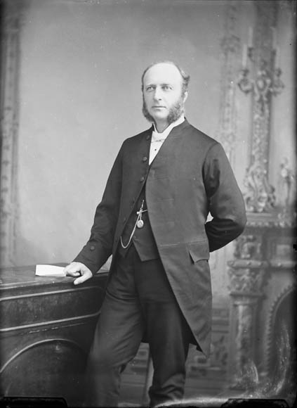 Malachy Bowes Daly (Deputy Speaker of the House of Commons) Date(s): Apr 1885 , Place of publication: Ottawa, Ont Terms of use Credit: Topley Studio / Library and Archives Canada / PA-025526 Restrictions on use: Nil Copyright: Expired Source: Library and Archives Canada